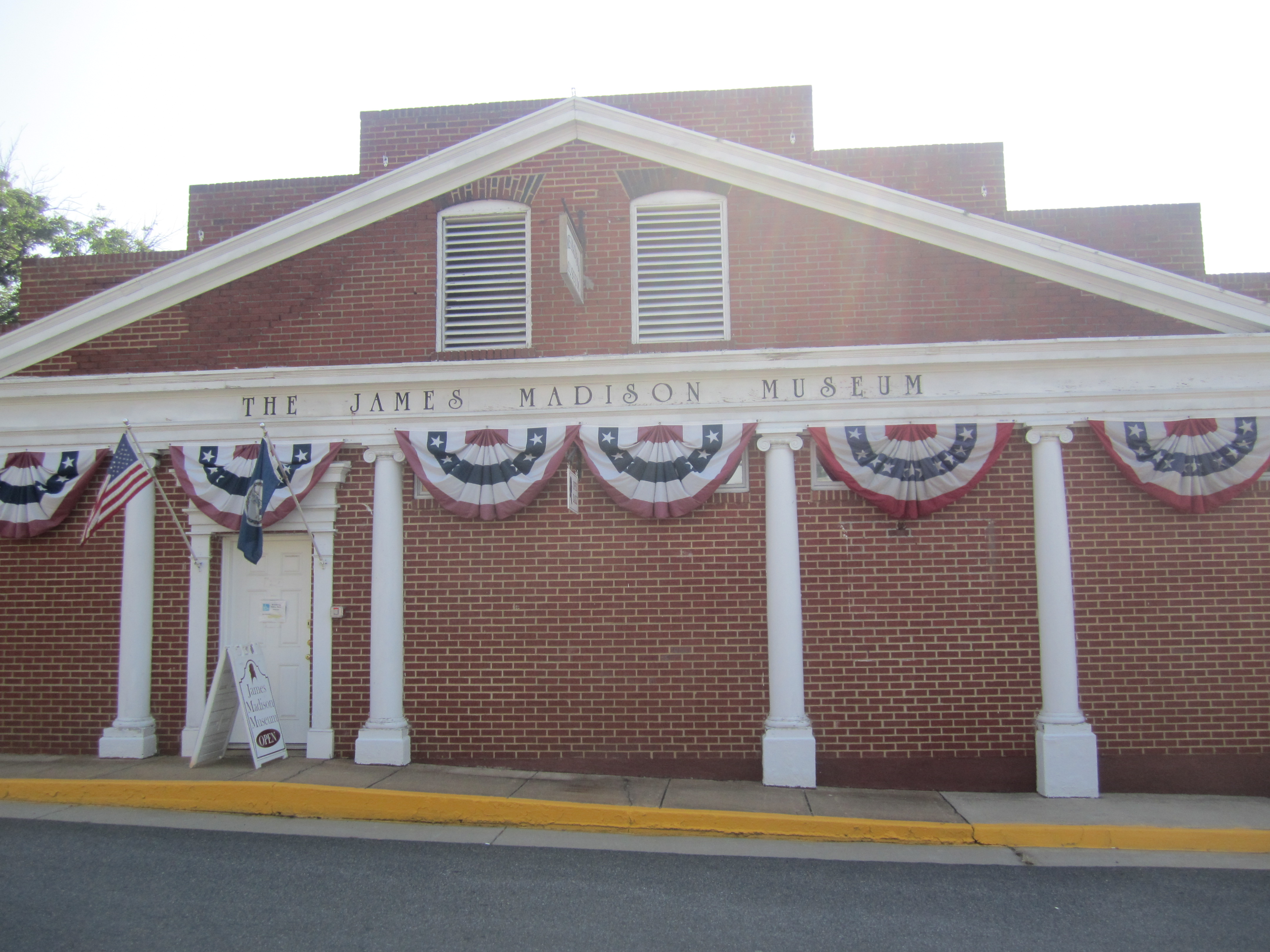 I took photo of James Madison Museum in Orange, VA, with Canon camera.